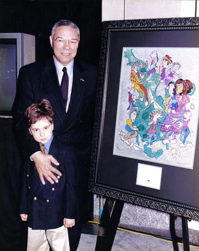 The Young Artist, George "Georgie" Pocheptsov with Colin Powell (1998)